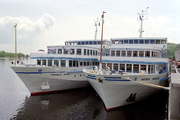 Princesa Dnepra (Yevgeniy Vuchetich) Project 301 Marshal Rybalko Project 302 (Zirka Dnipra) - Kiev 2004